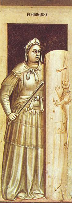 Life of Christ